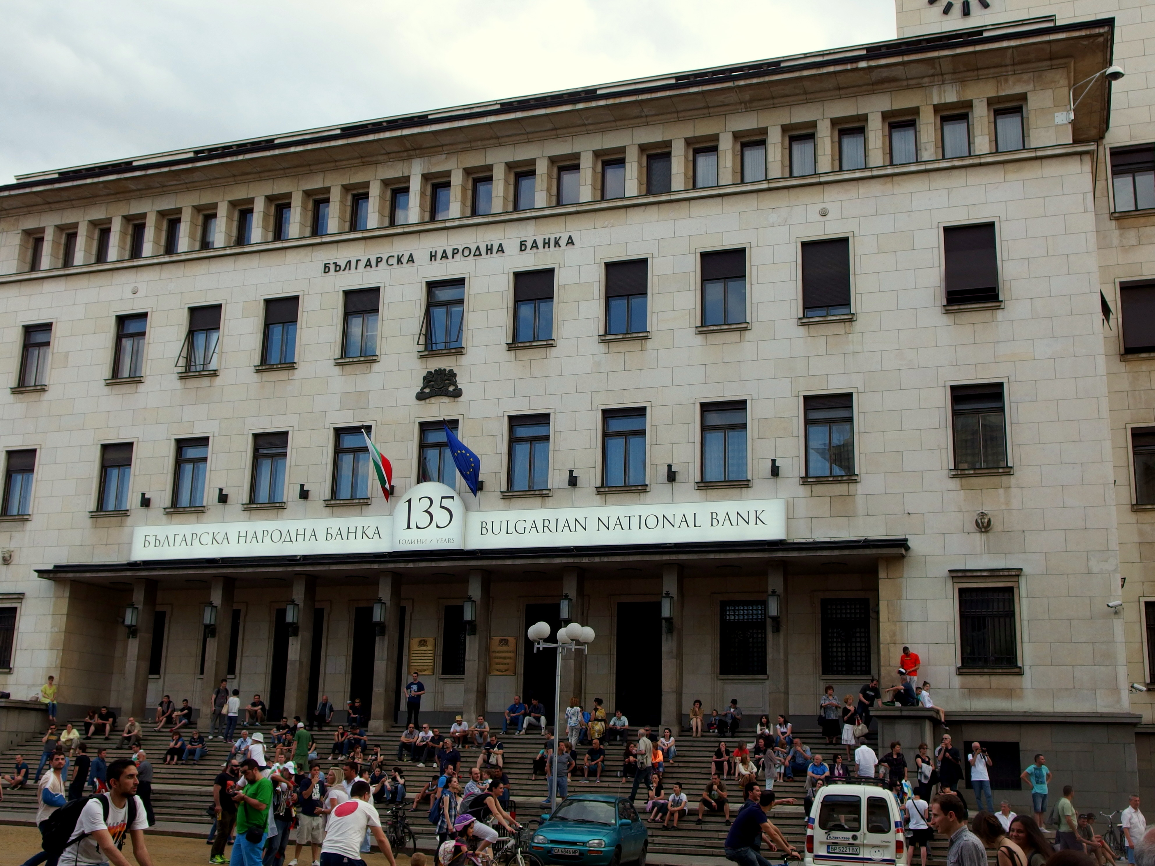 2014-06-14 in Sofia.